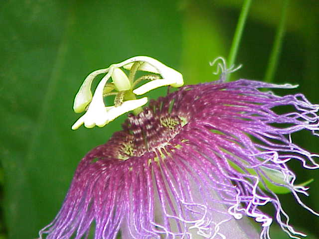 Species: Passiflora serratifolia Family: Passifloraceae Image No. 3